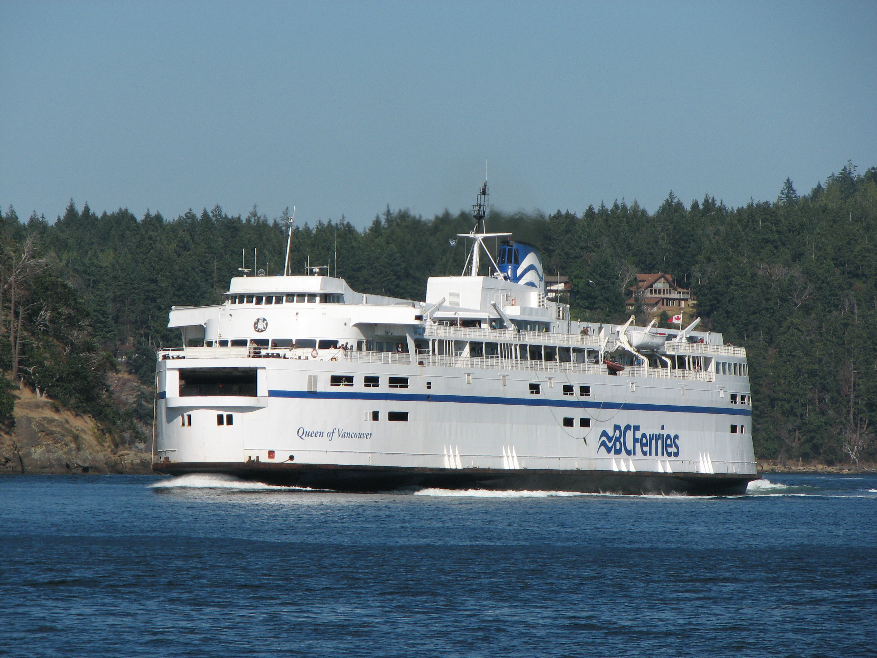 Queen of Vancouver IMO Number: 5288035 MMSI Number: 316001264 Callsign: CYMW Length: 168 m Beam: 27 m